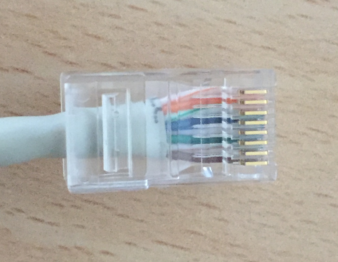 Do it yourself. Make UTP (Unshielded Twisted Pair) and connect RJ45 connector. Step 7: add RJ45 connector.